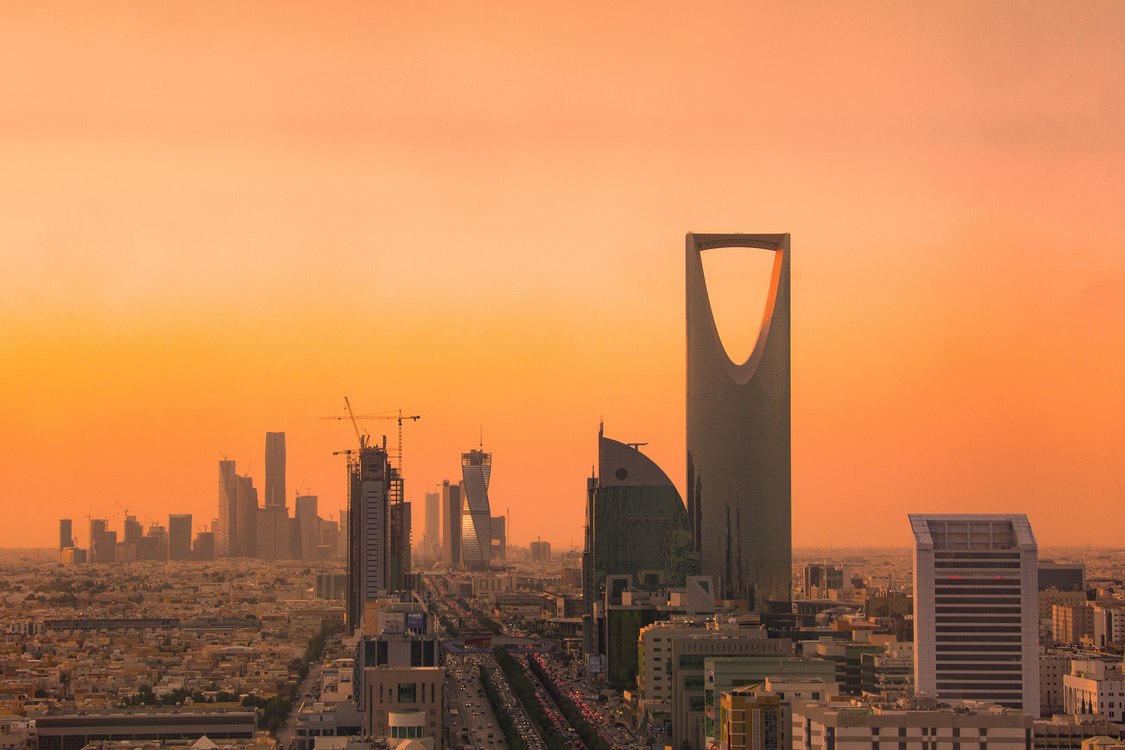 Riyadh North Skyline dipcting famous landmarks like Kingdom tower, Majdoul Tower and KAFD (King Abdullah Financial District).